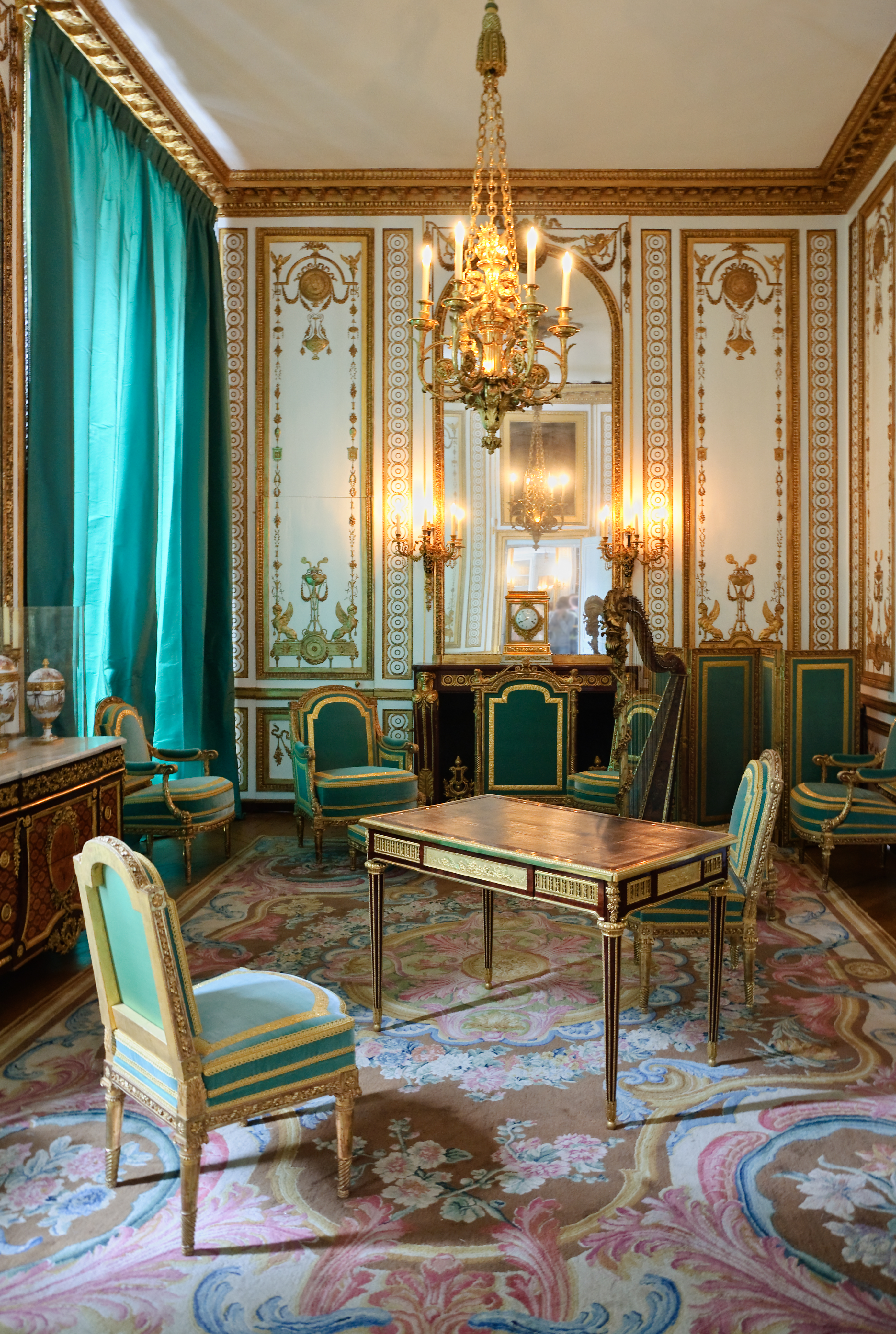 Palace of Versailles - Petit appartement de la Reine - The Cabinet Doré of Marie-Antoinette, with the desk made by Jean-Henri Riesener in 1783.Seats by Georges Jacob.